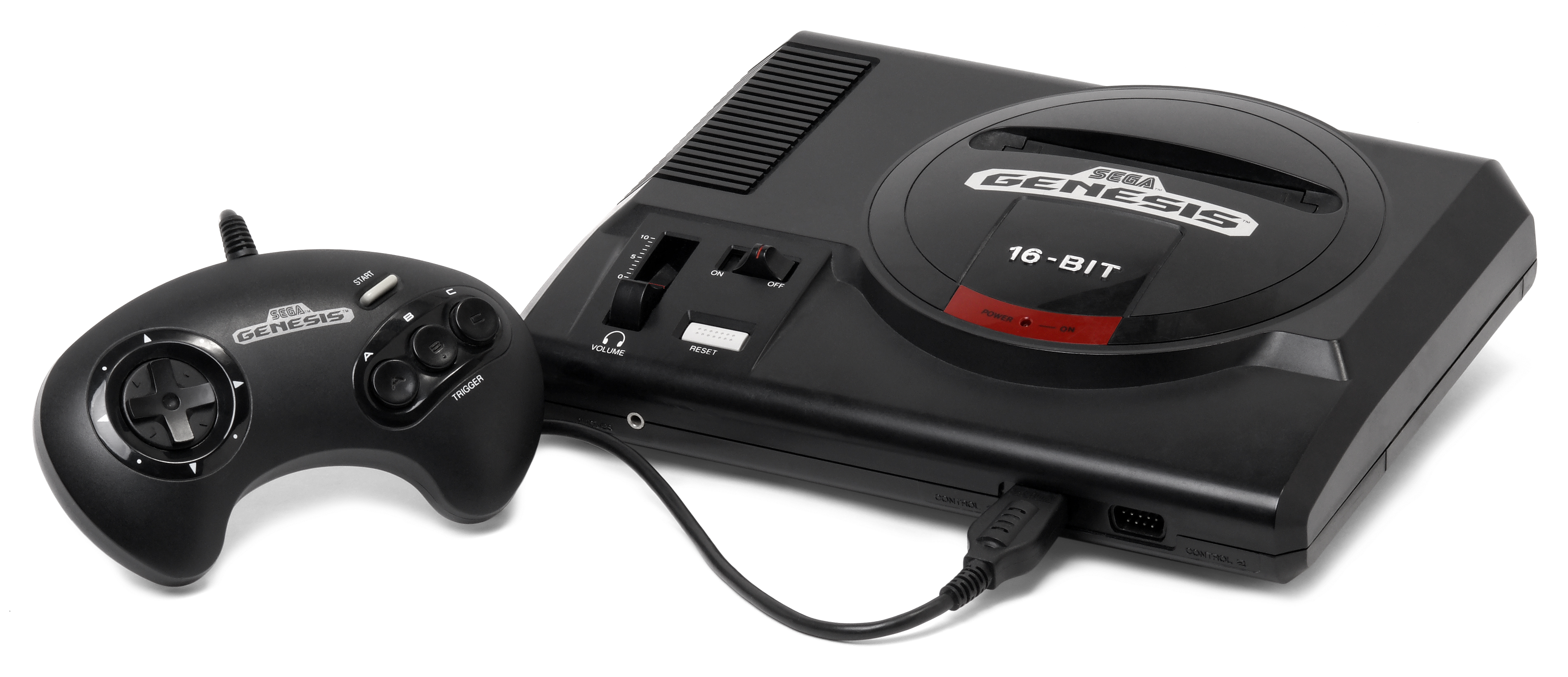 A Sega Genesis, this is a model 1 version with a three button controller. This is the JPG version.